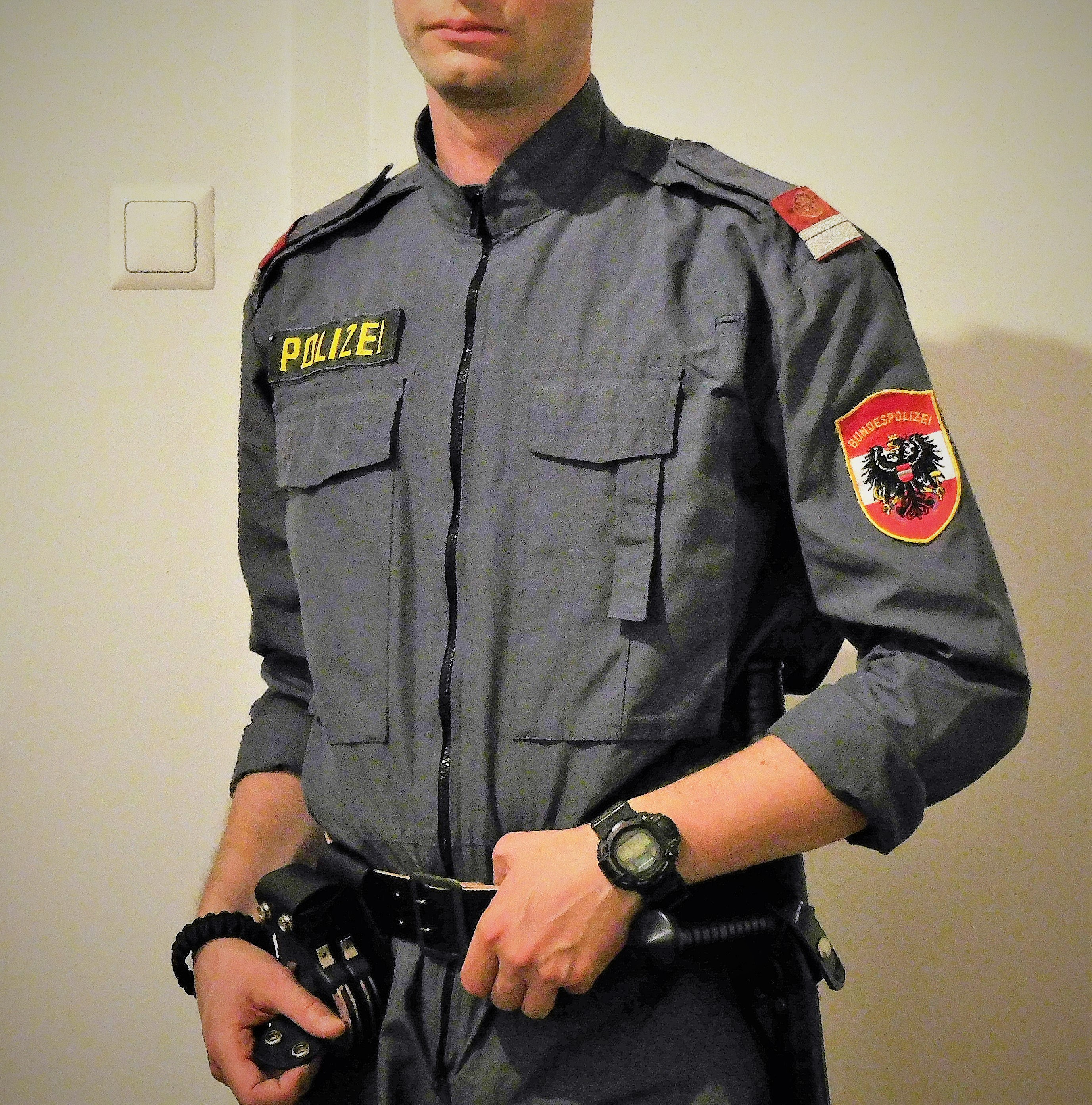 Austrian policeman in SWAT coverall